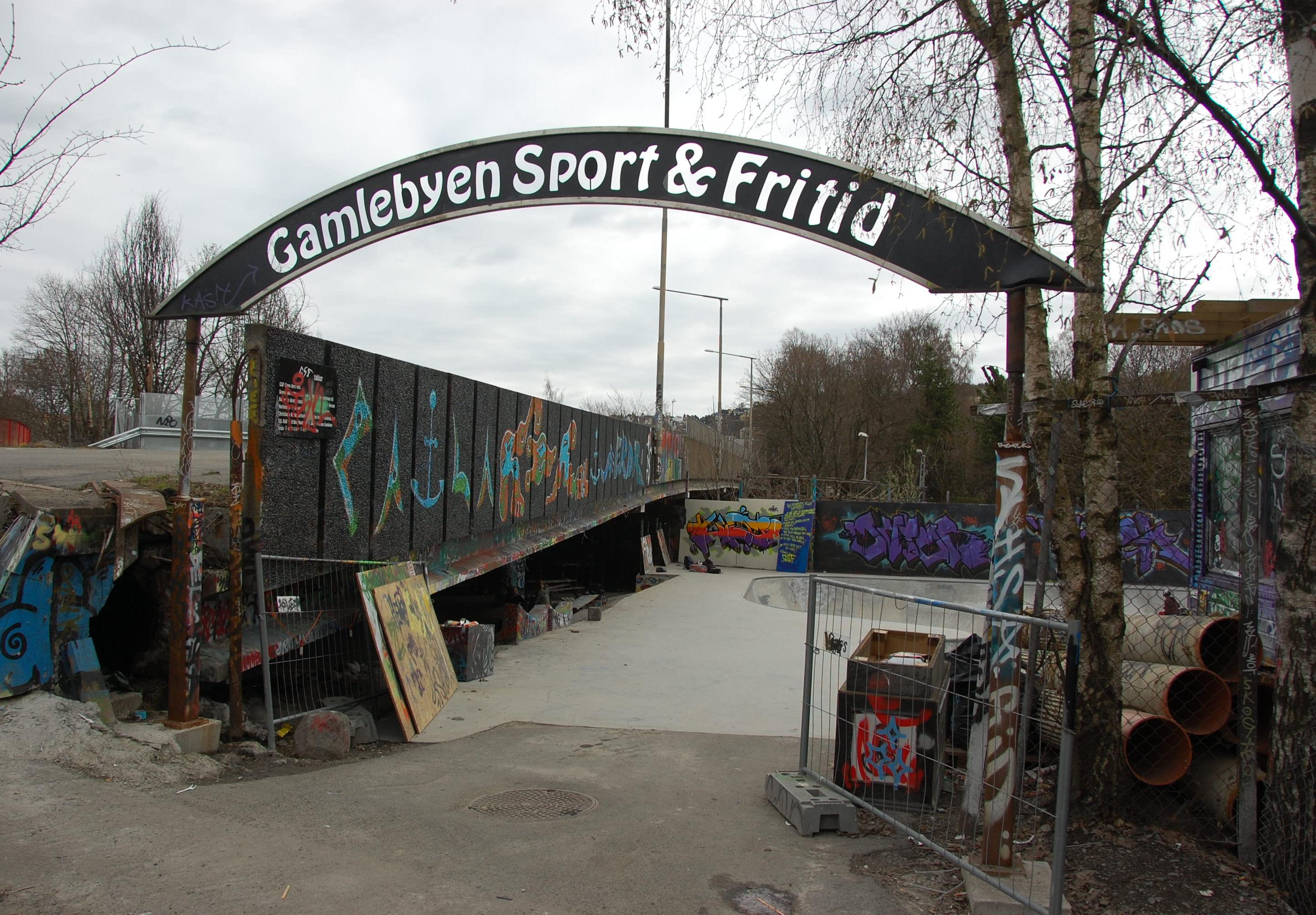 Skateboardpark in Oslo